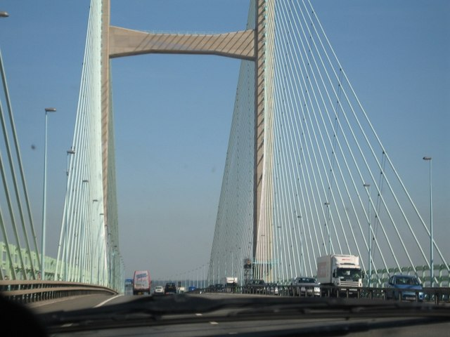 Cable-stayed bridge, looking East Constitutes the Second Severn Crossing upstream of the Bristol Channel. Lamp standard at left represents mid-point of span.